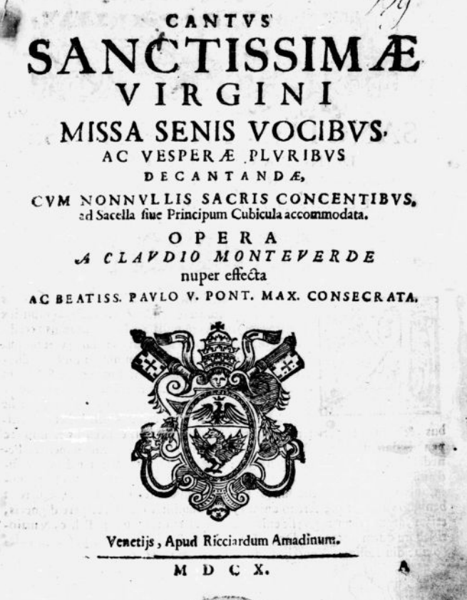 Title page of descant(?) part of Claudio Monteverdi's Vespro della Beata Vergine